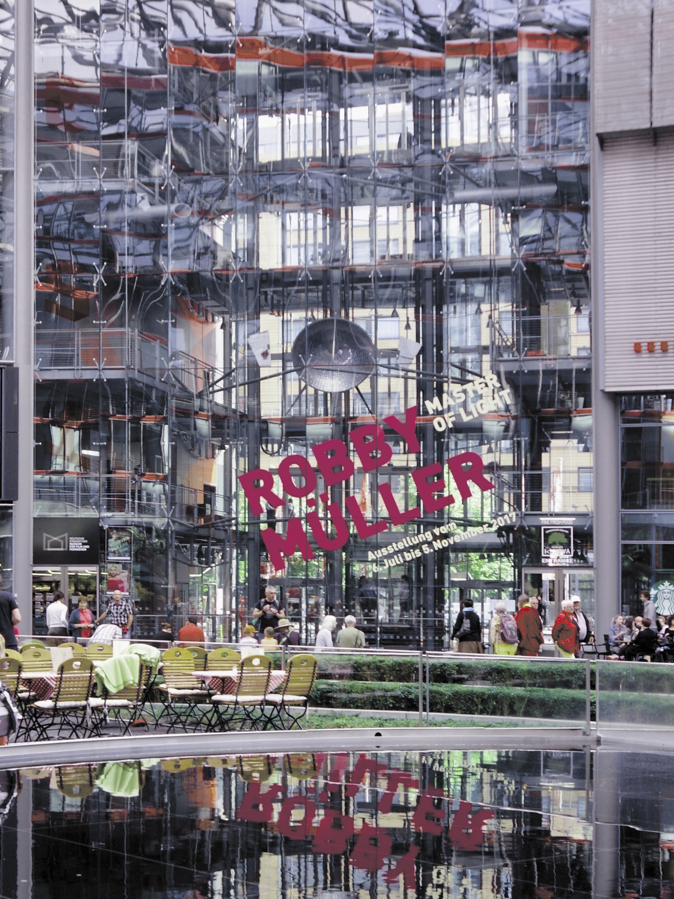 Sony Centre Reflected in a Pool. Potsdamer Platz, Berlin, Germany August 16, 2017